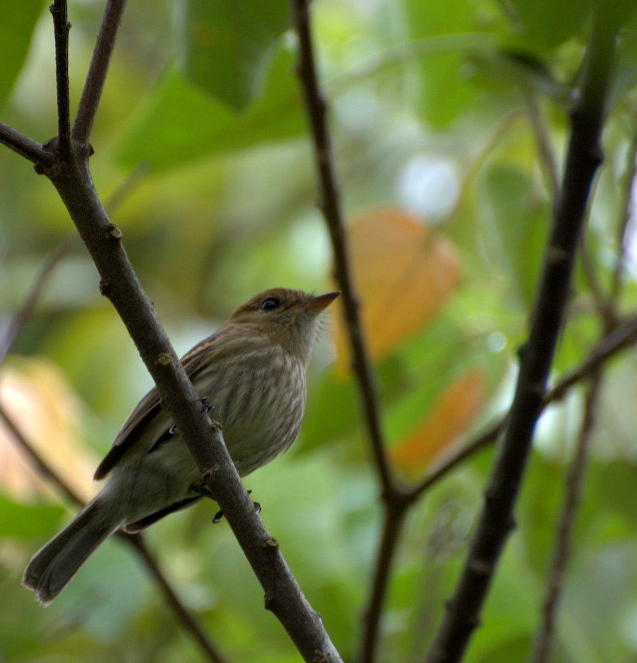 Myiophobus fasciatus Registro-SP - Vale do Ribeira